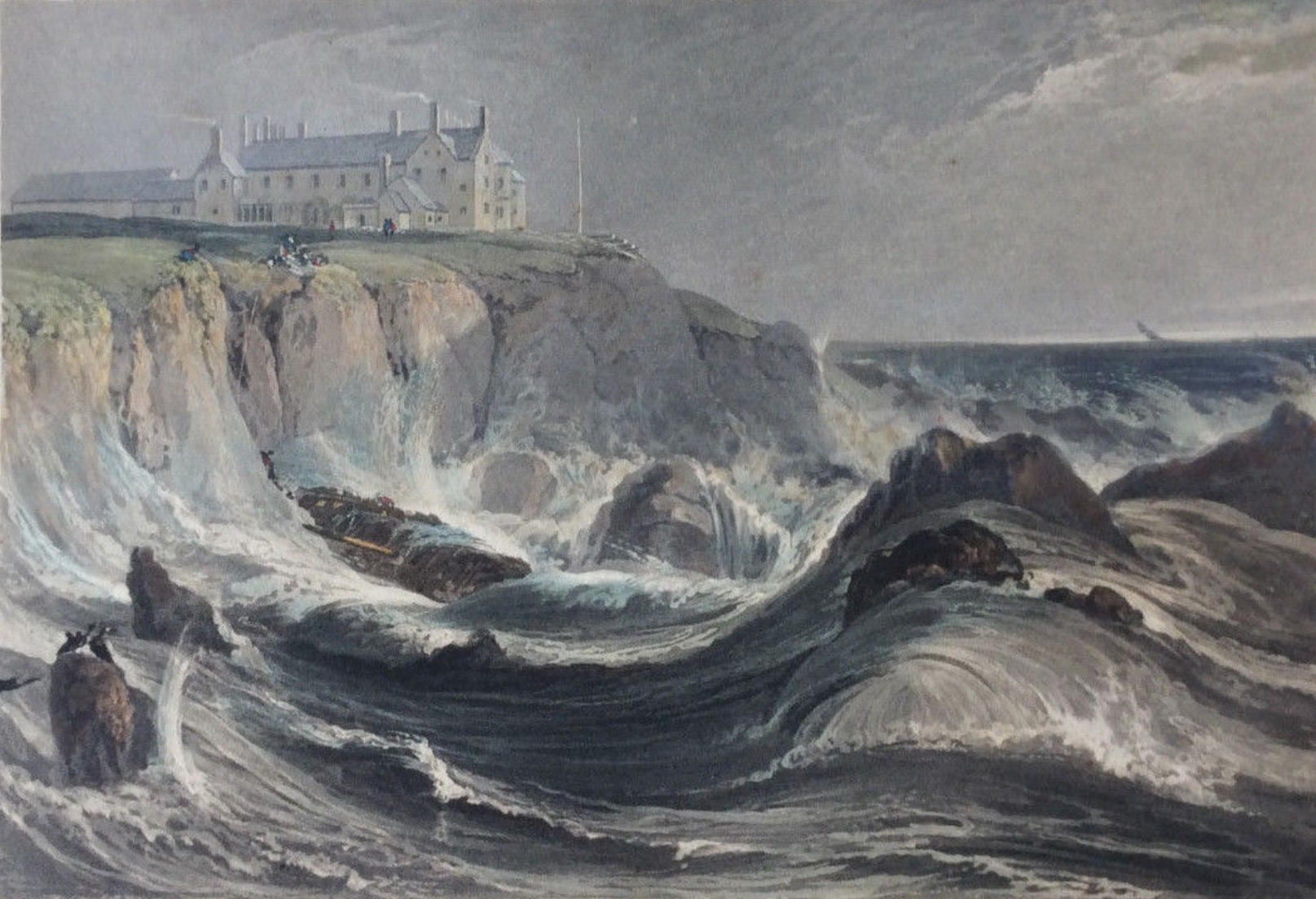 Engraving of Slanes Castle, Aberdeenshire